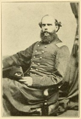 Col. Silas P. Richmond, commanding officer of the 3rd Regiment Massachusetts Volunteer Militia 1862-1863; Gammons, John G. (1906). The Third Massachusetts Regiment Volunteer Militia in the War of the Rebellion, 1861-1863